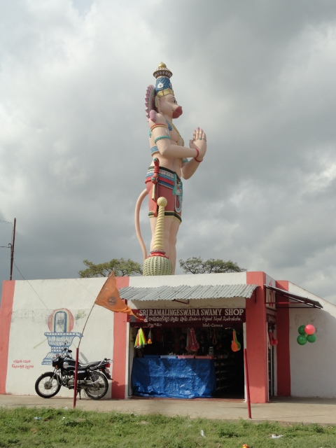 hanuman statue at keesara